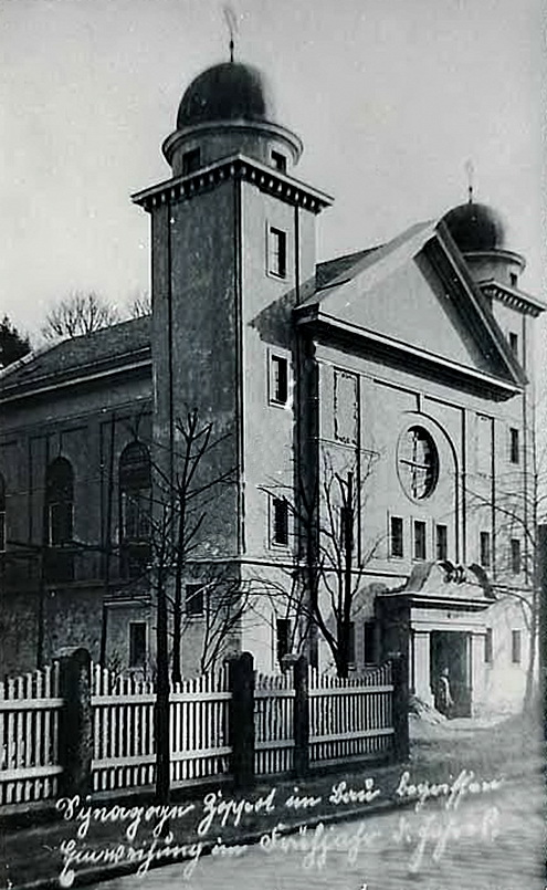 Synagogue of Sopot . Built in 1914, destroyed by the nasis in 1938